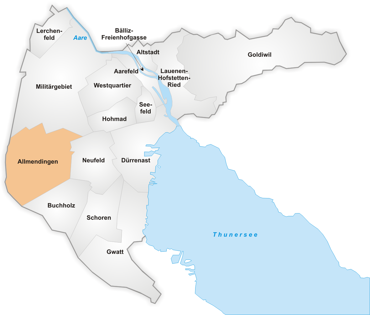 Thuner Quarter Allmendingen